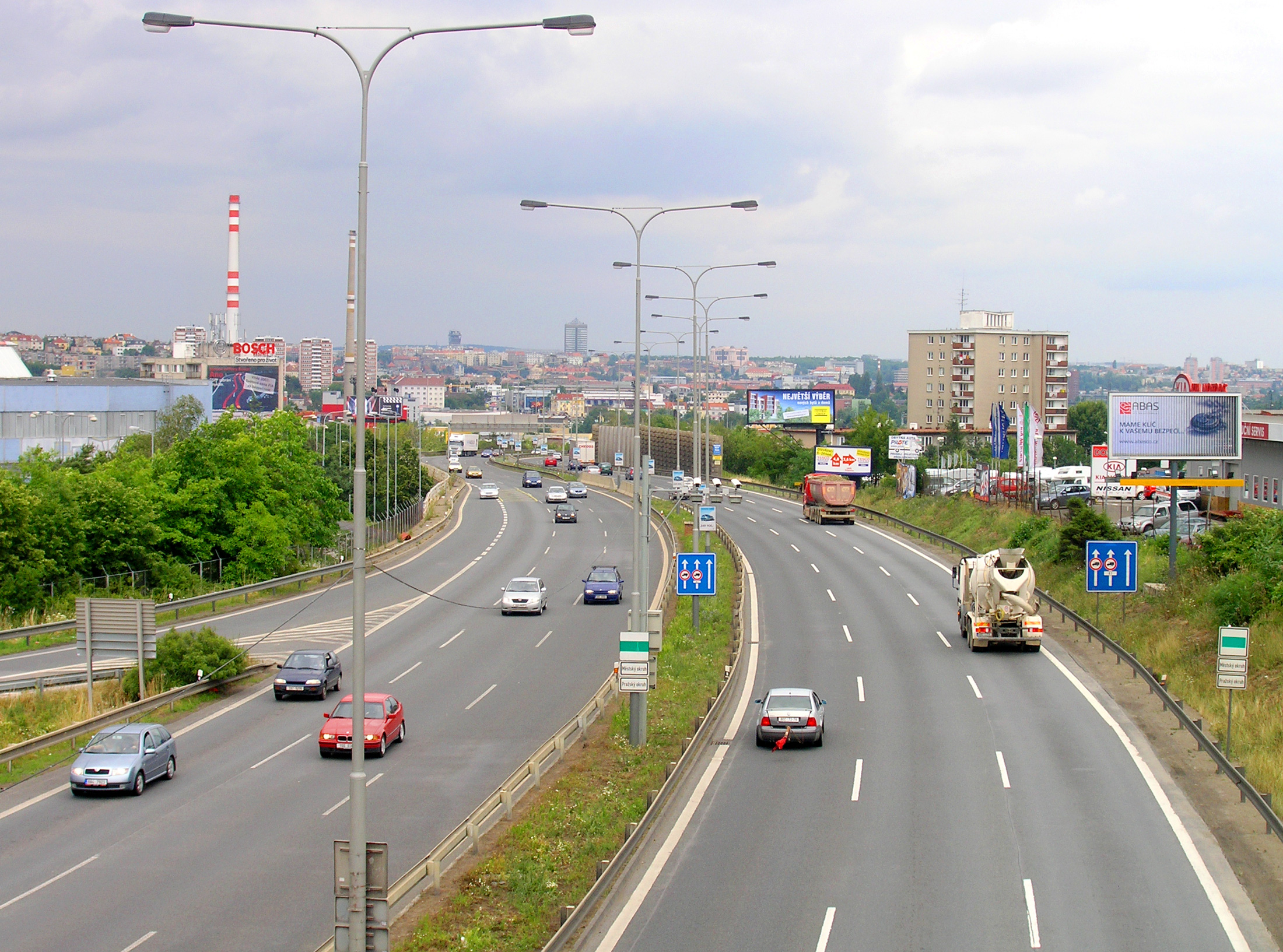 Highway "Jižní spojka" (South Connection) at Spořilov, Prague